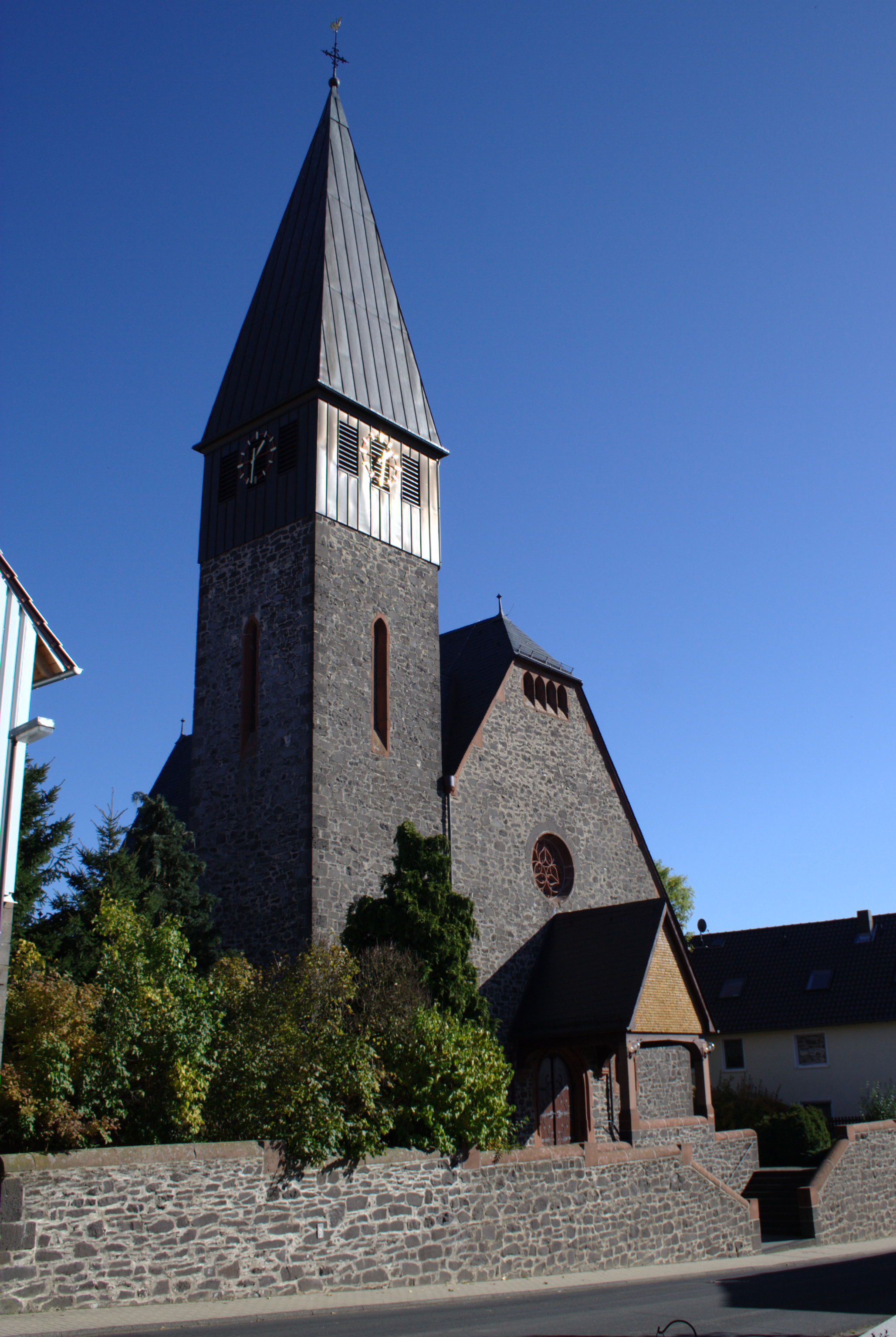 Church in Antrifttal Vockenrod / Hesse / Germany